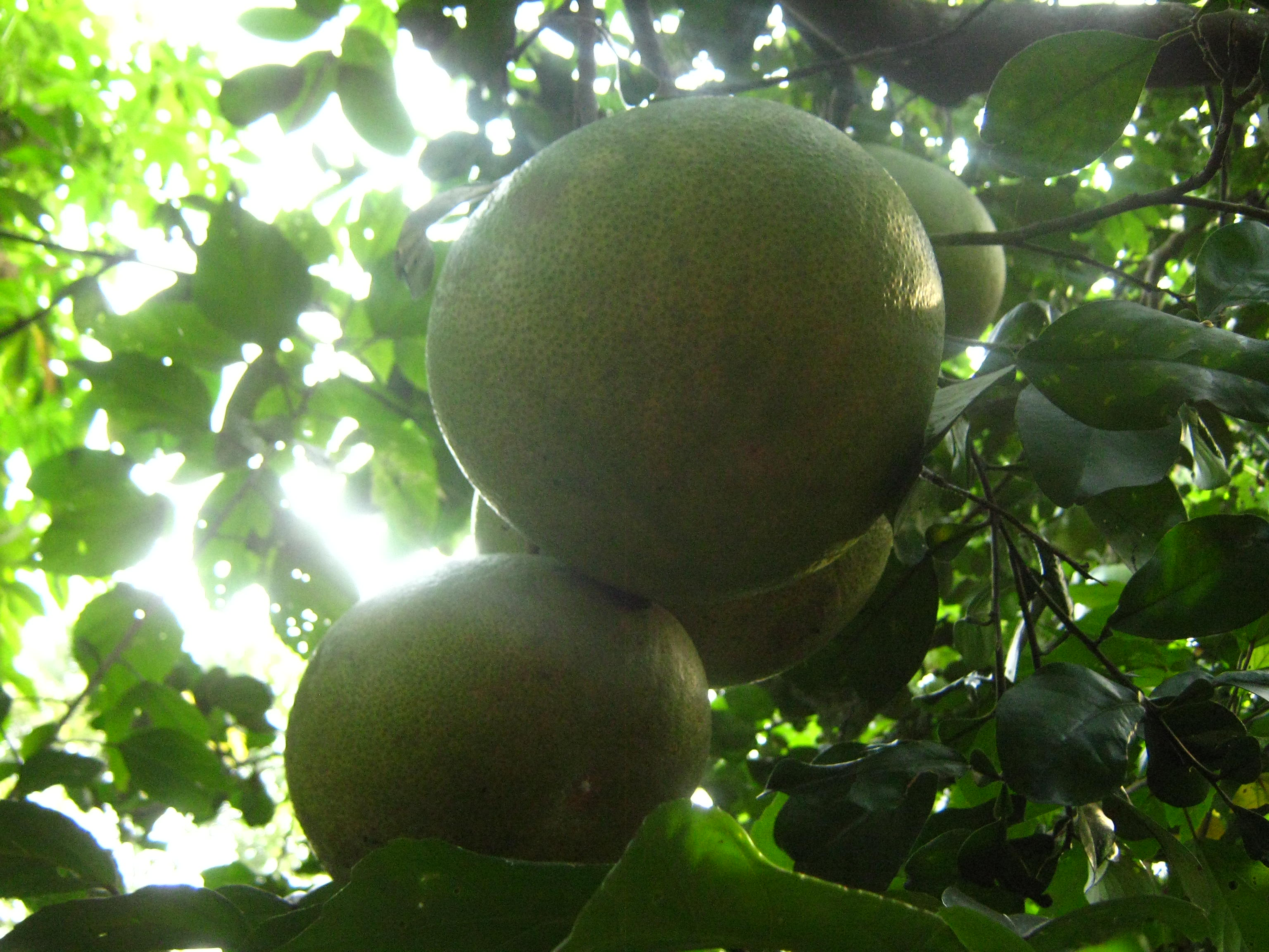 Pomelo Plants (Babloos Naranga) കമ്പിളി നാരങ്ങ This media file is uploaded with Malayalam loves Wikimedia event - 3.